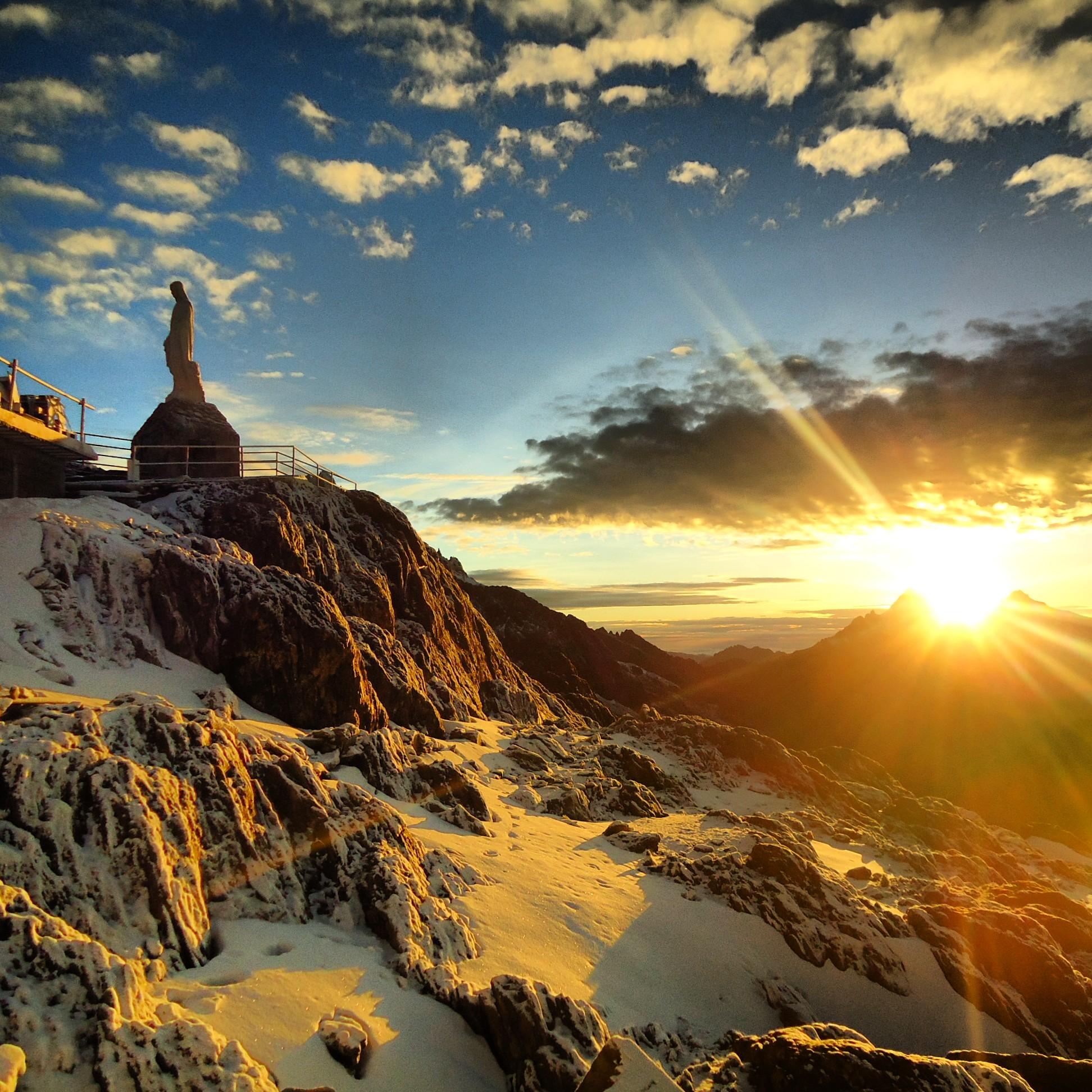 Virgen de las nieves